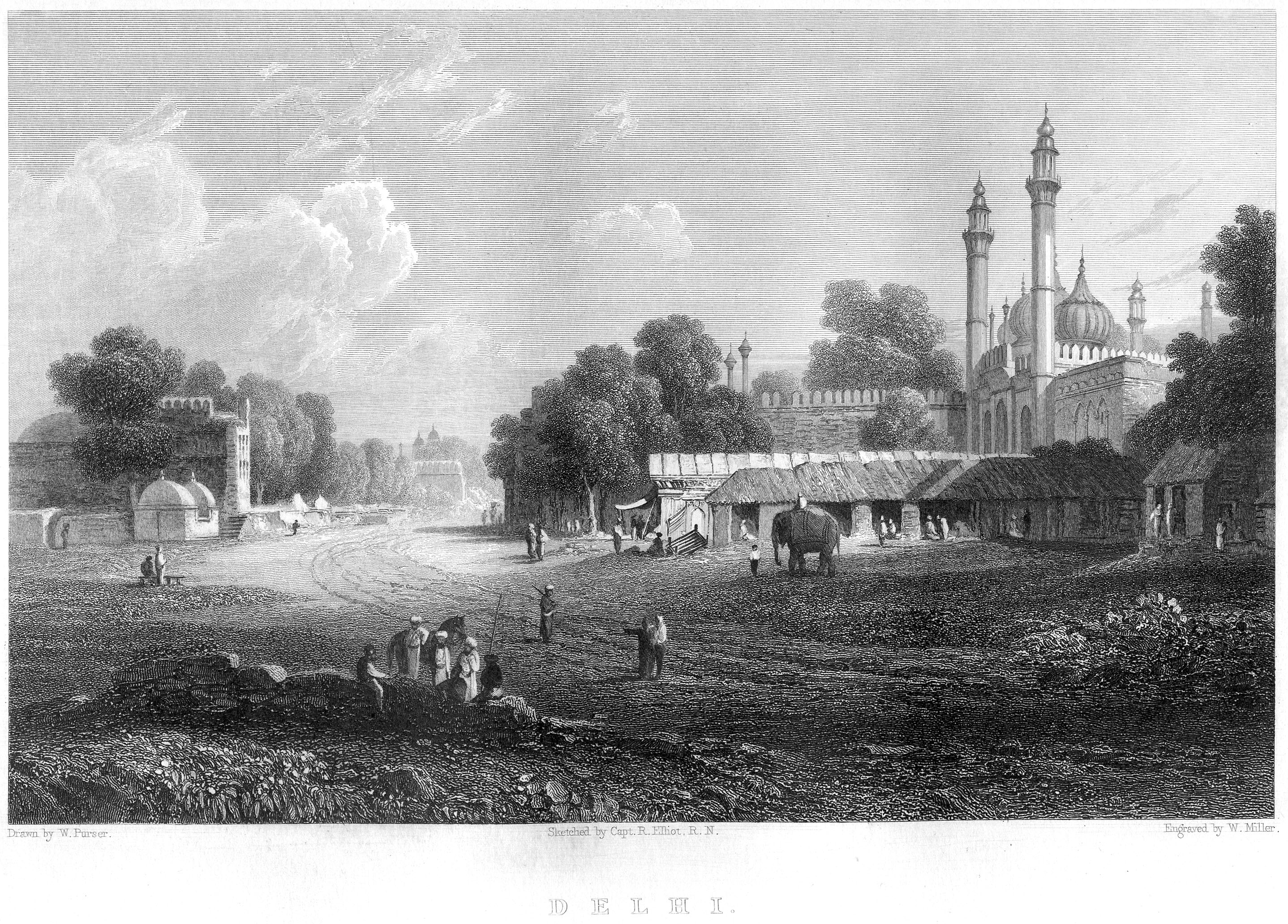 Delhi, engraving by William Miller after W Purser, after sketch by Robert Elliot R.N., published in Views In The East comprising India, Canton. and The Shores of The Red Sea with Historical and Descriptive Illustrations. Elliot, Captain Robert R.N.. H. Fisher, Son & Co., Newgate Street, London 1833